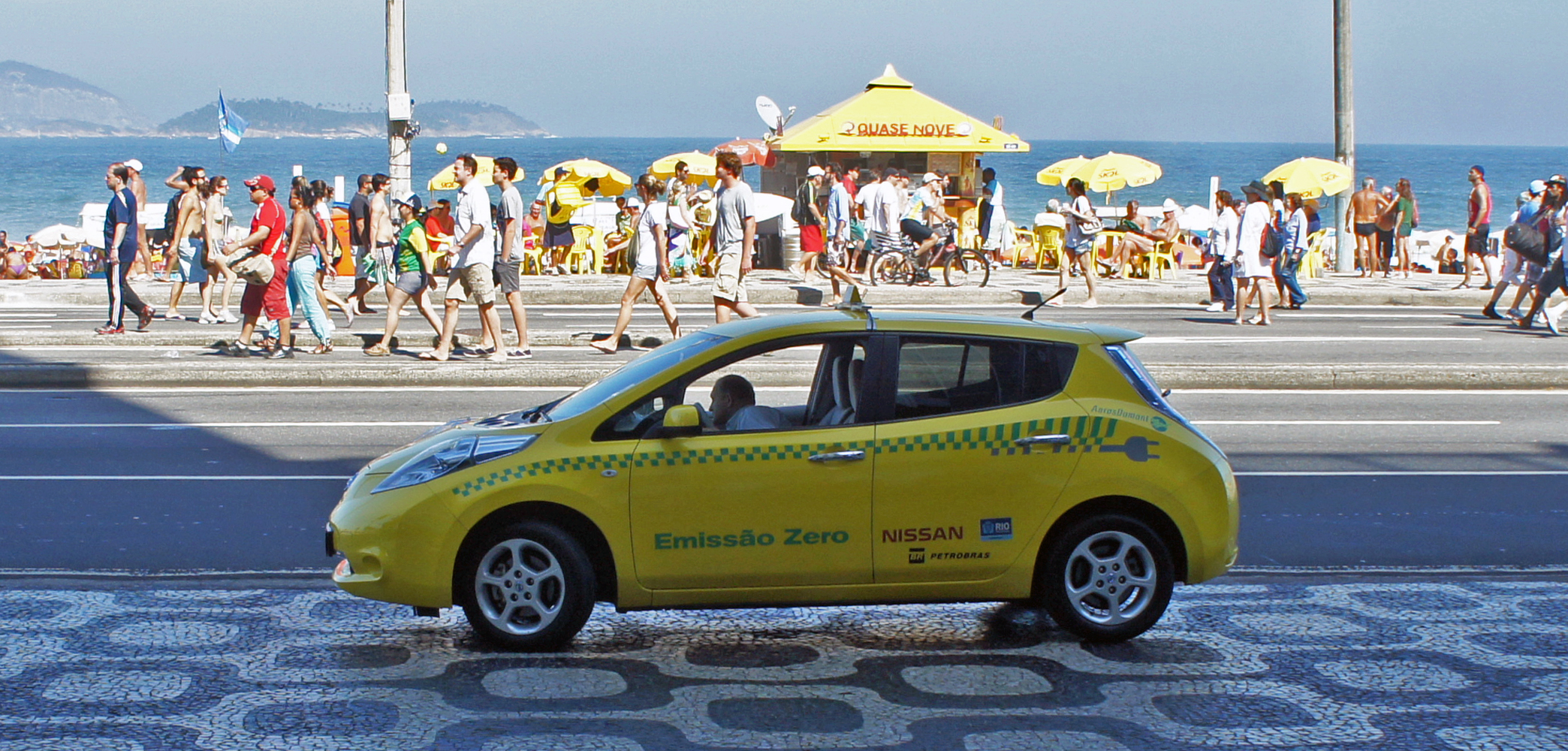 Nissan Leaf electric car operating as taxi in at Ipanema, Rio de Janeiro, Brazil